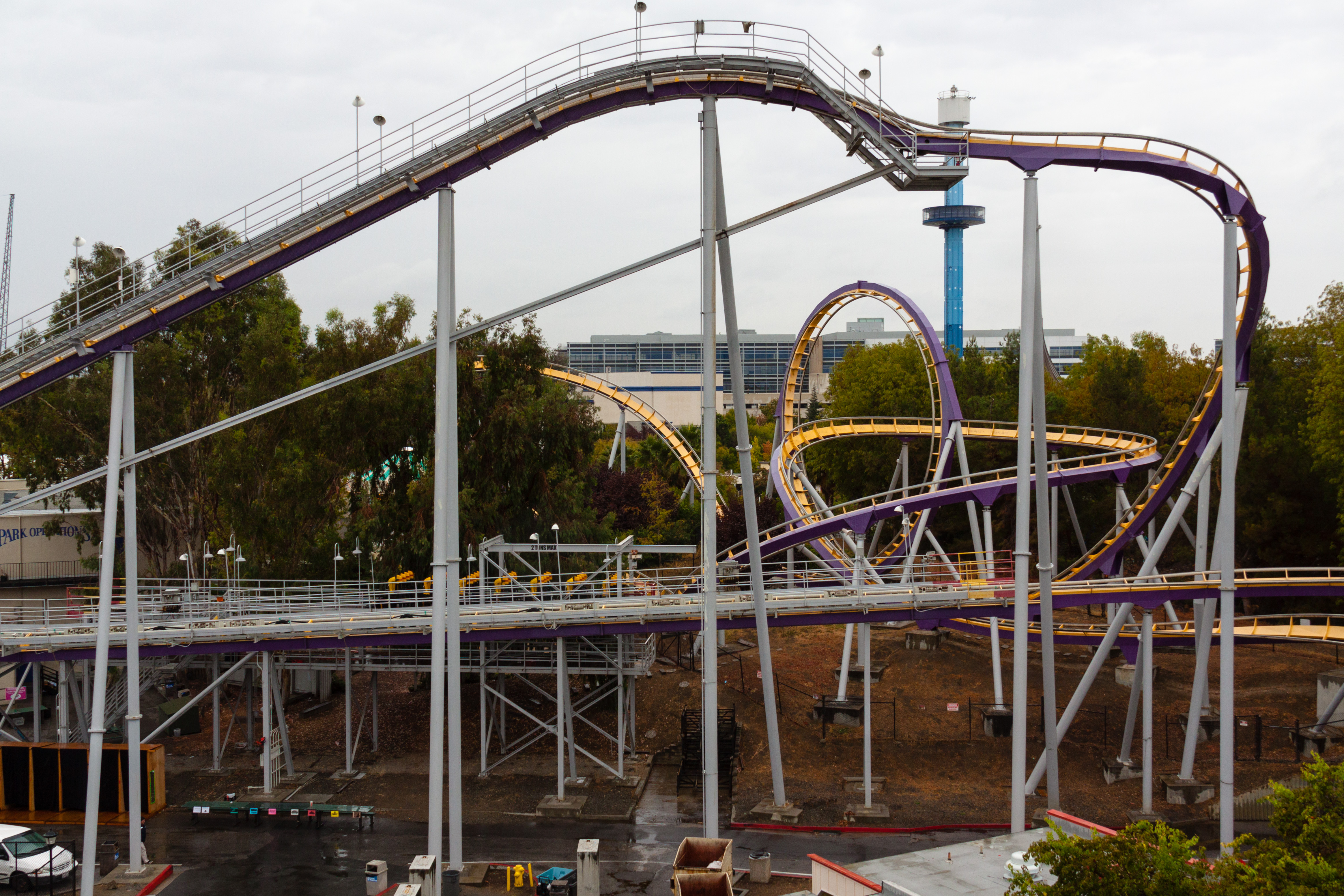 Stand-up roller coaster Vortex at California's Great America